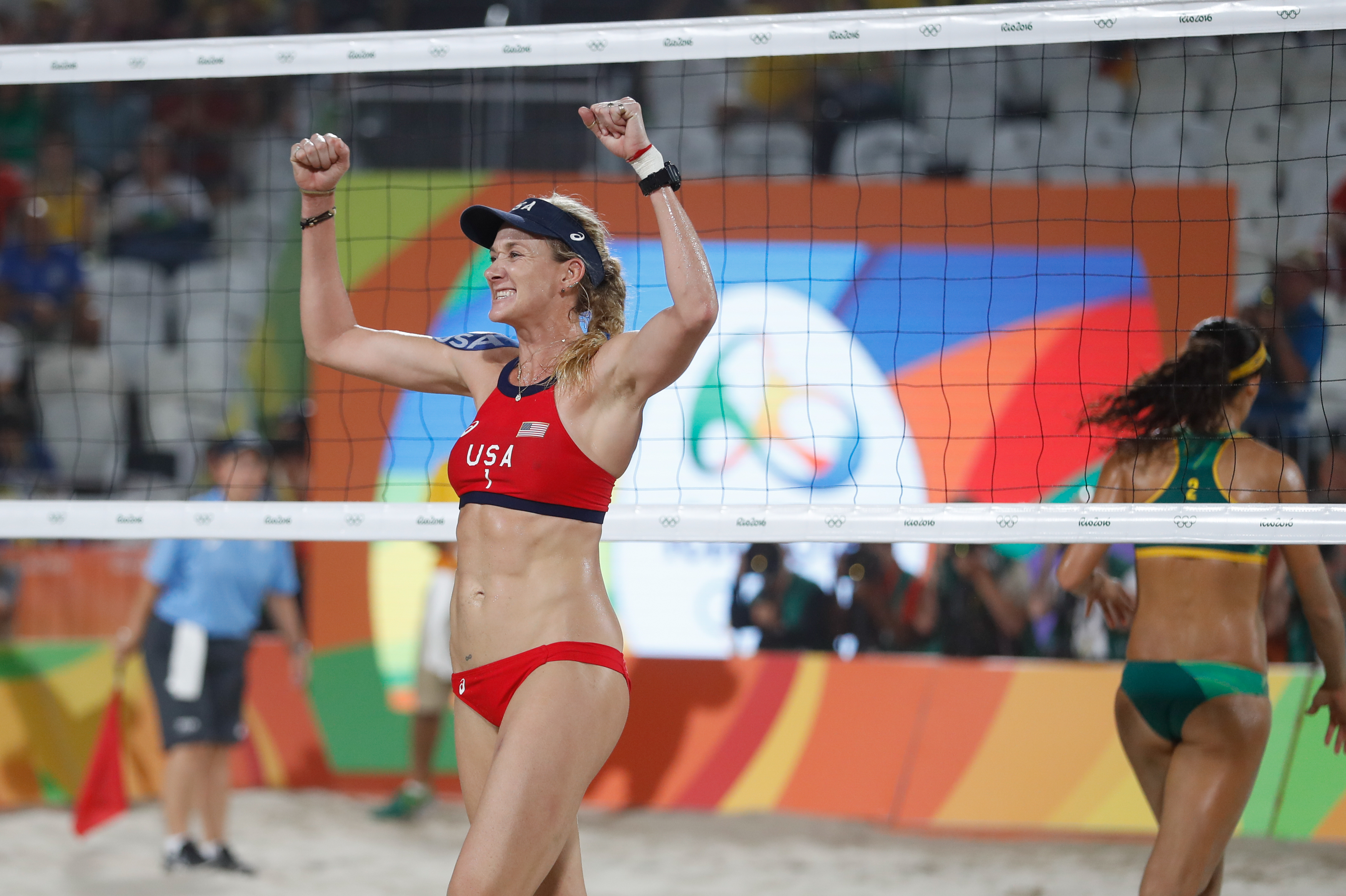 Rio de Janeiro - Dupla de vôlei de praia do Brasil Larissa e Talita perdem a disputa de bronze para norte-americanas Walsh e Ross nos Jogos Olímpicos Rio 2016, em Copacabana ( Fernando Frazão/Agência Brasil)